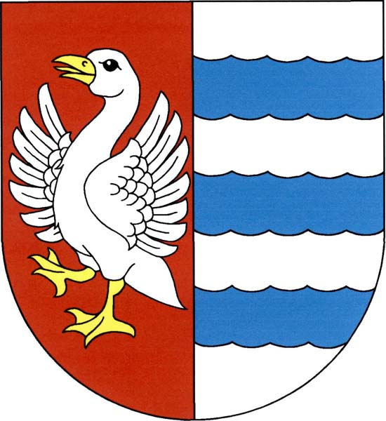 Coat of amrs of Husinec , District Prague East, Czech Republic